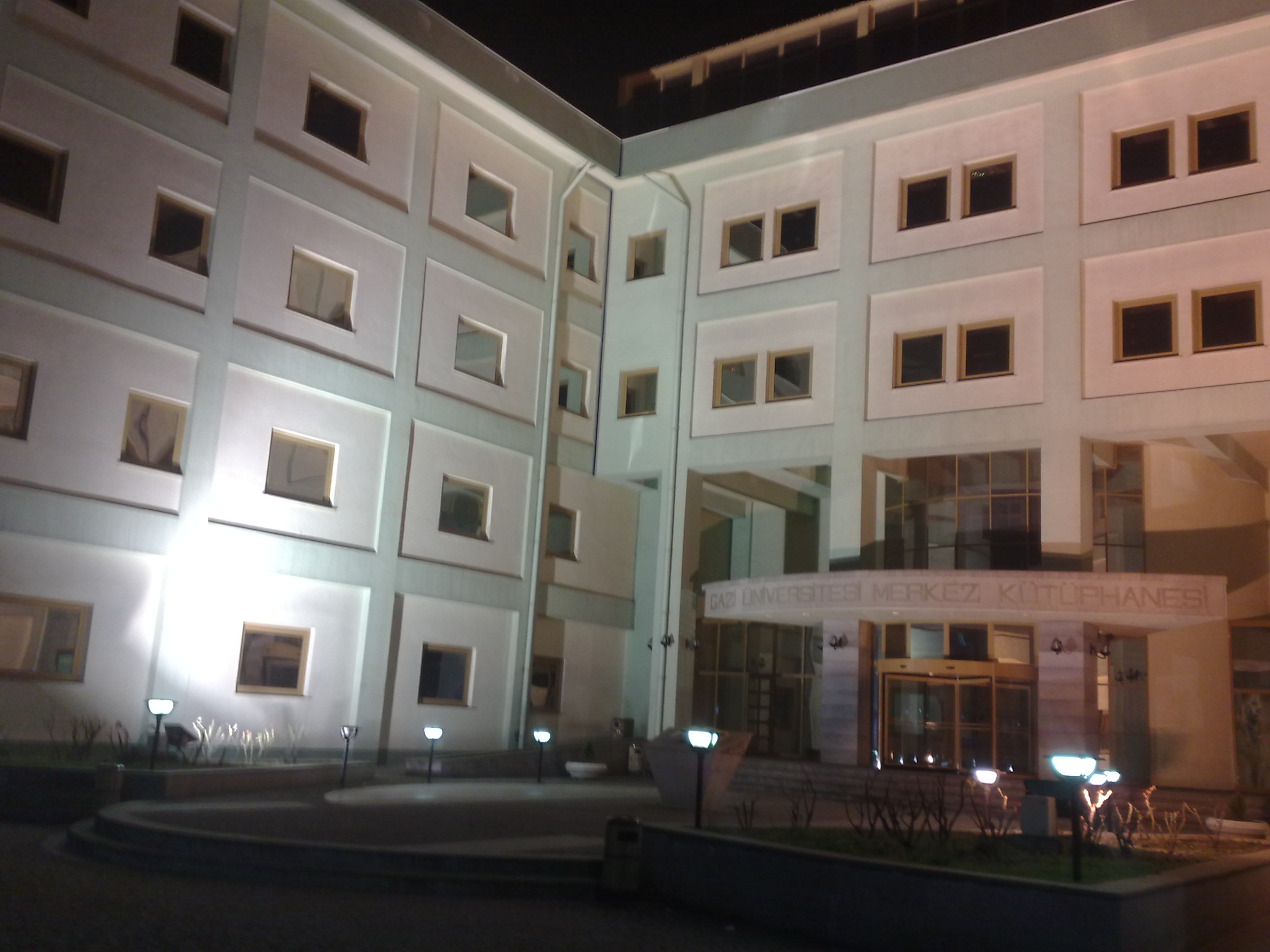 Central library at Gazi Univercity, Ankara, Turkey